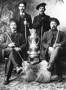 Curlers in Innisfail, Alberta. L-R back row: Mr. Fairley; Billy Wilson. L-R front row: Mr. Agnew; John A. Simpson